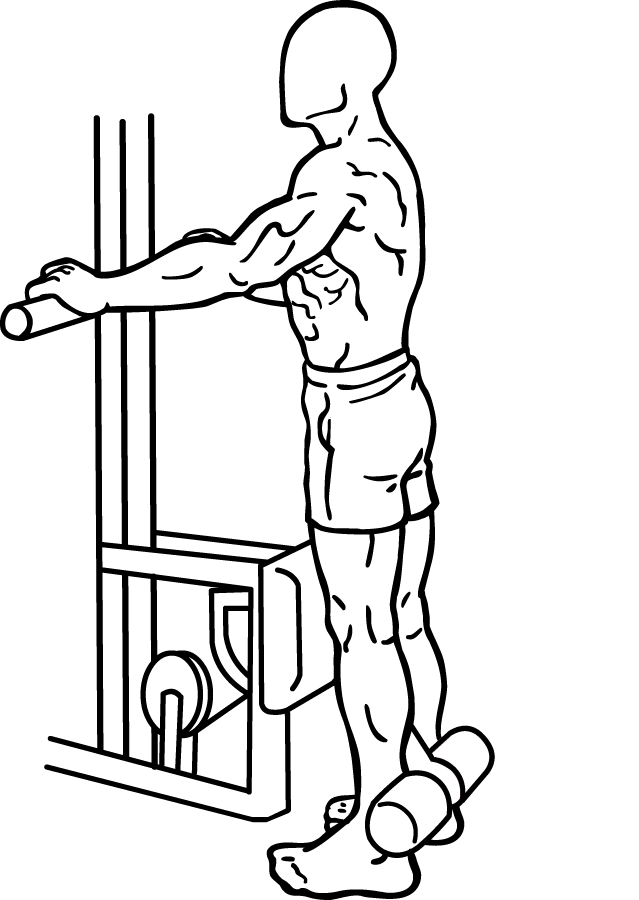 an exercise of thigh